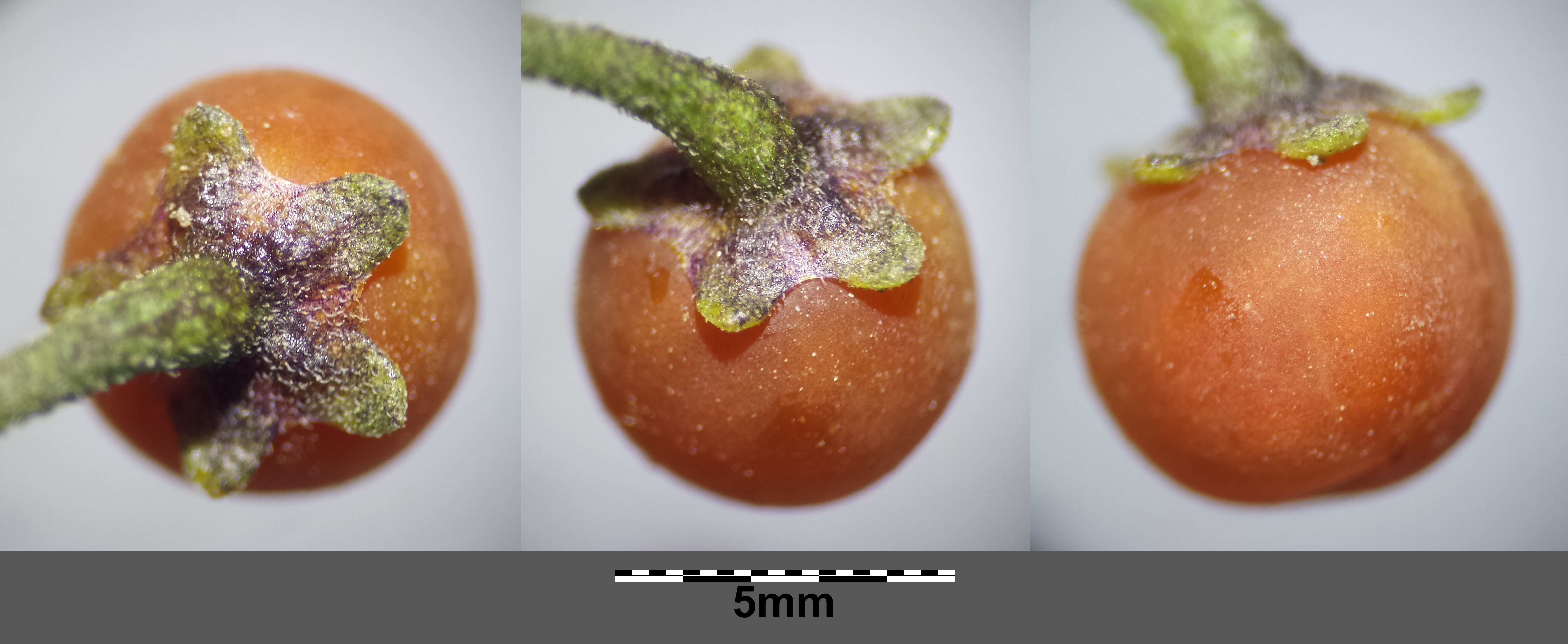 Fruit Taxonym: Solanum villosum subsp. alatum ss Fischer et al. EfÖLS 2008 ISBN 978-3-85474-187-9 Location: next to Hatzenbach, district Korneuburg, Lower Austria - 225 m a.s.l. Habitat: quarry